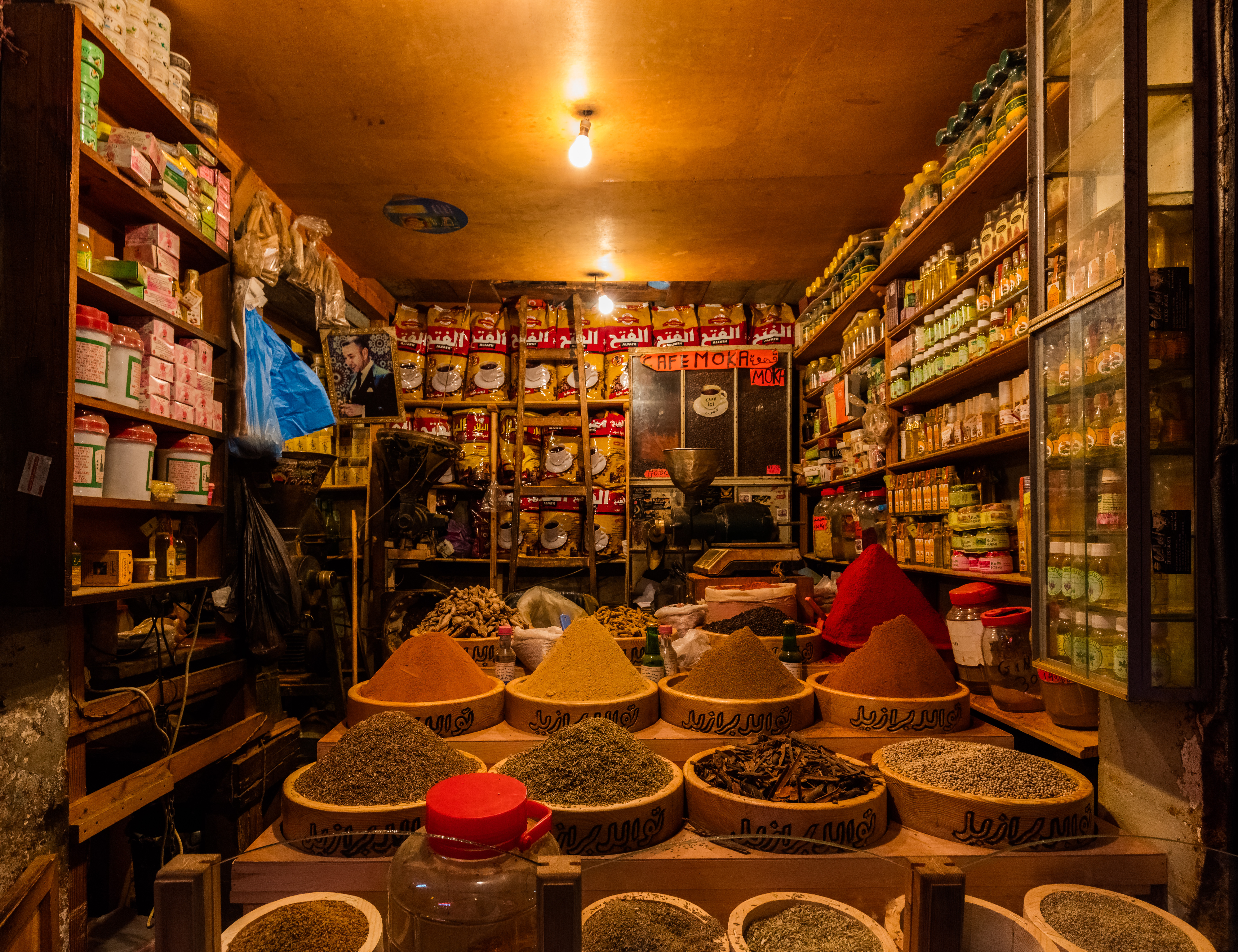 Shop in the April 9th 1947 Square, Tangier, Morocco